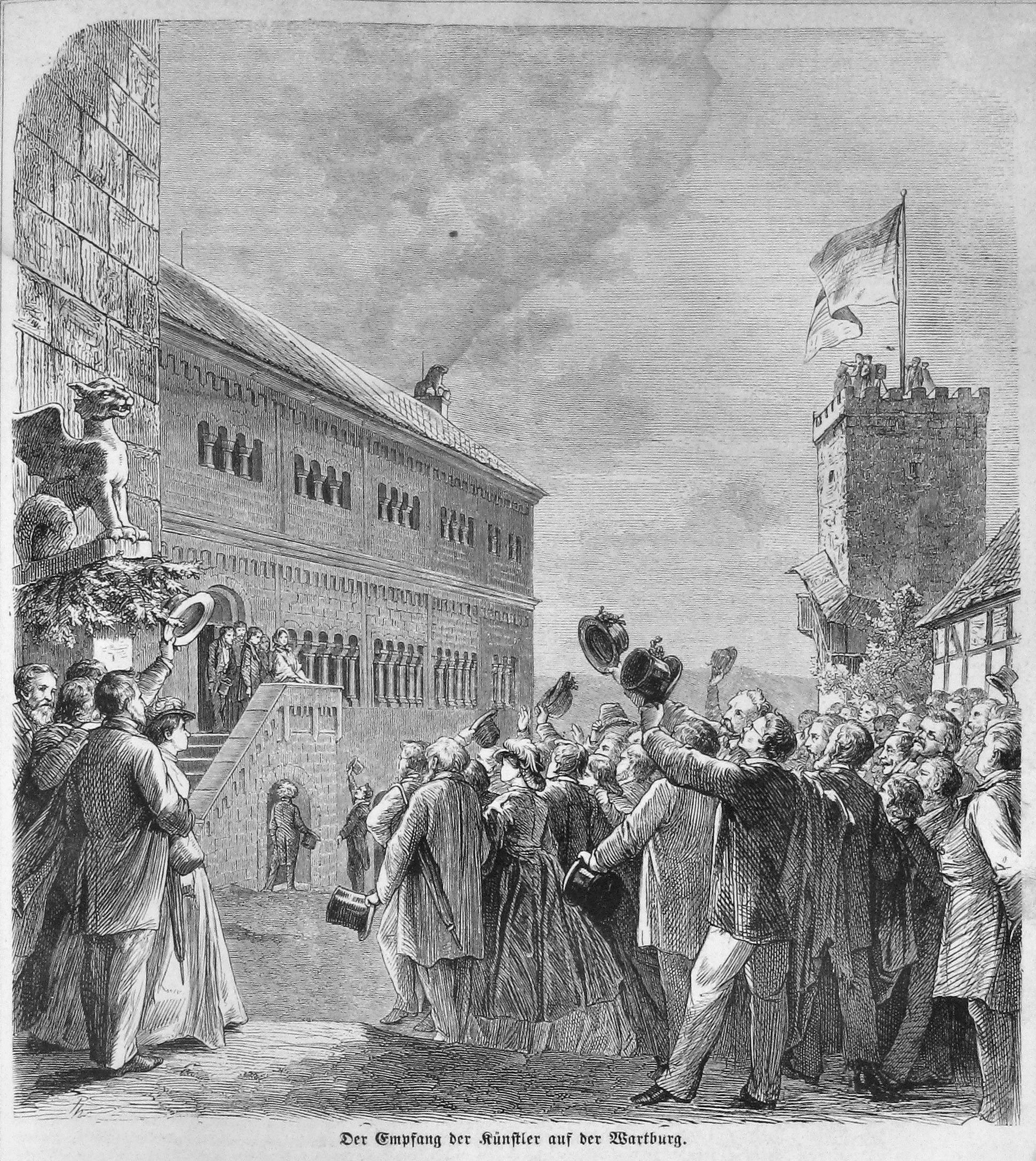 caption: "Der Empfang der Künstler auf der Wartburg."